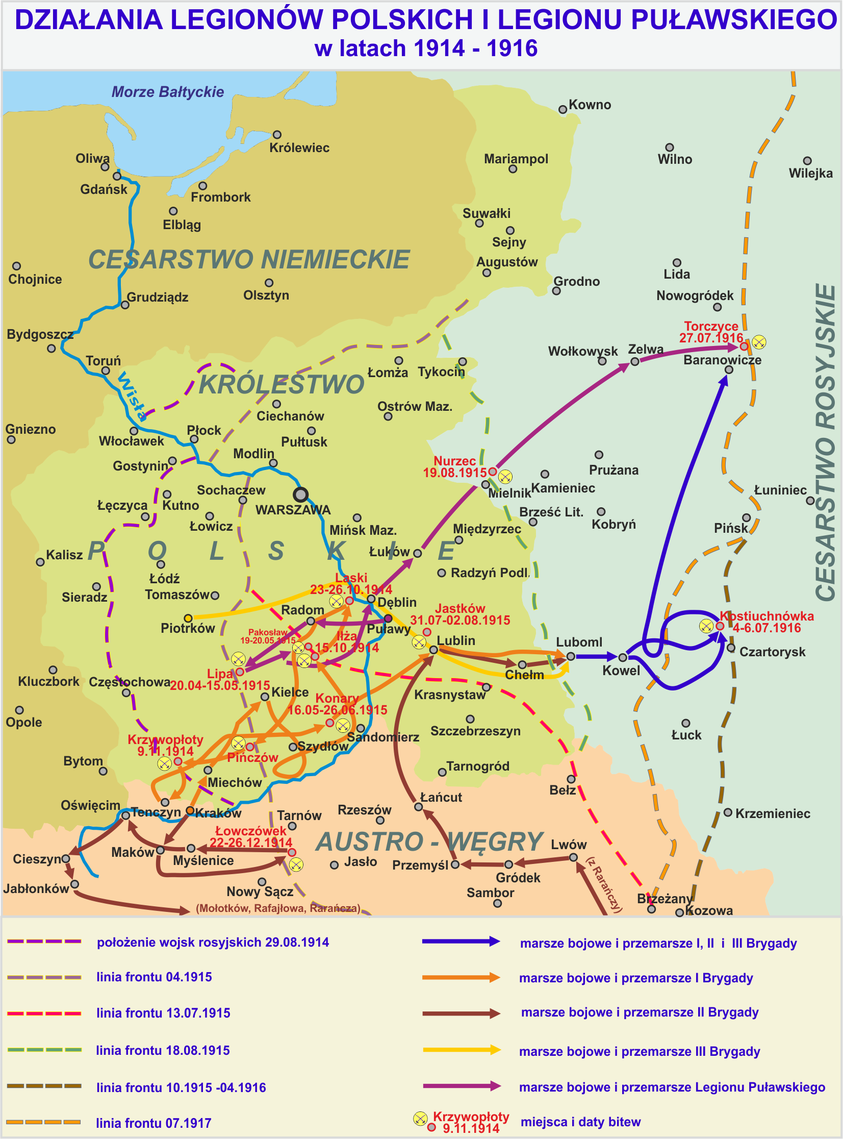 Map of the routes of the Polish Legions in World War I, 1914-1916. Legend: left location of Russian troops 29.08.04 lines of front (date) right routes taken by (I, II, and III) Brigade(s) routes taken by the Puławy Legion location and dates of battles